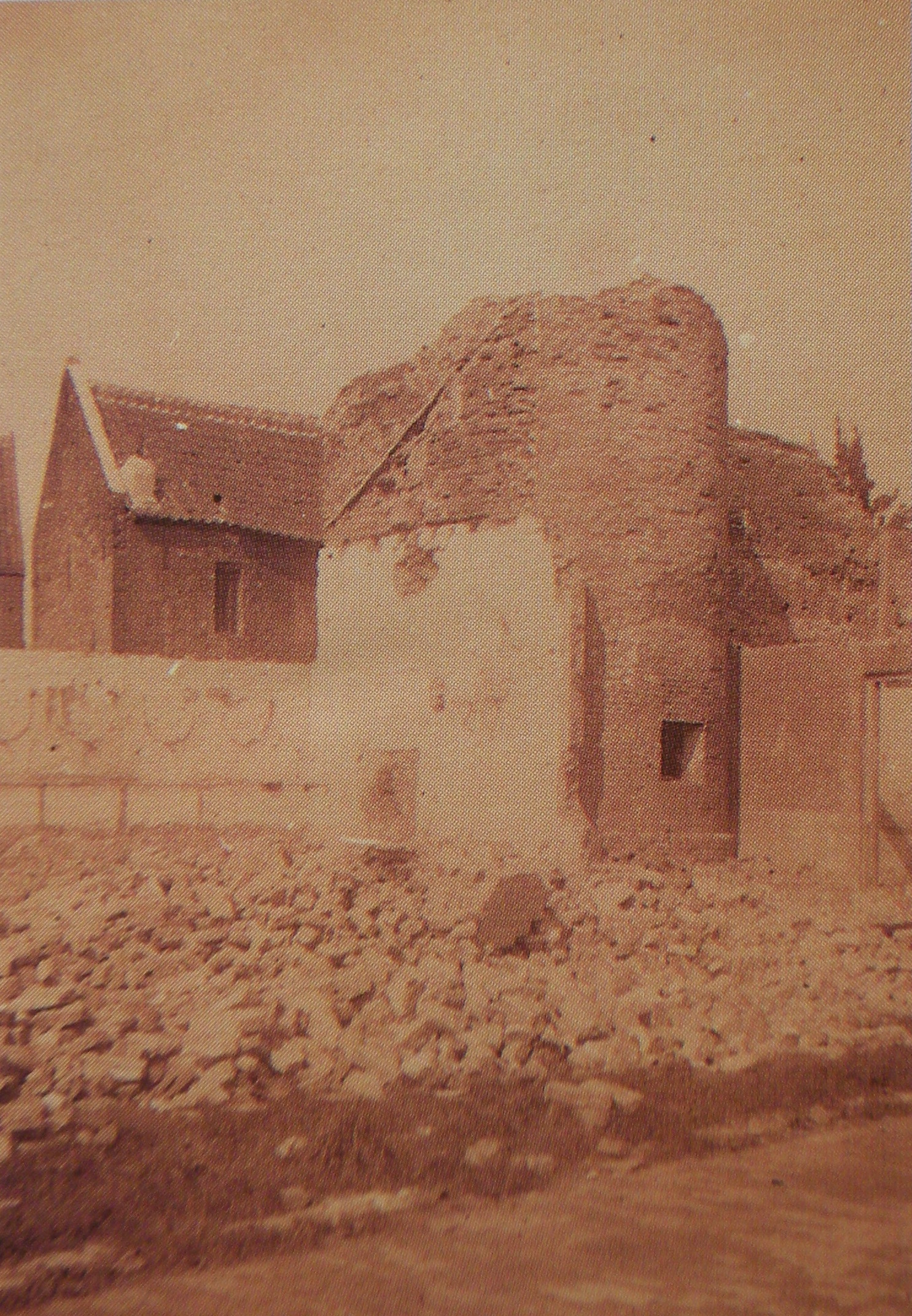 Fiolentoren former stronghold tower